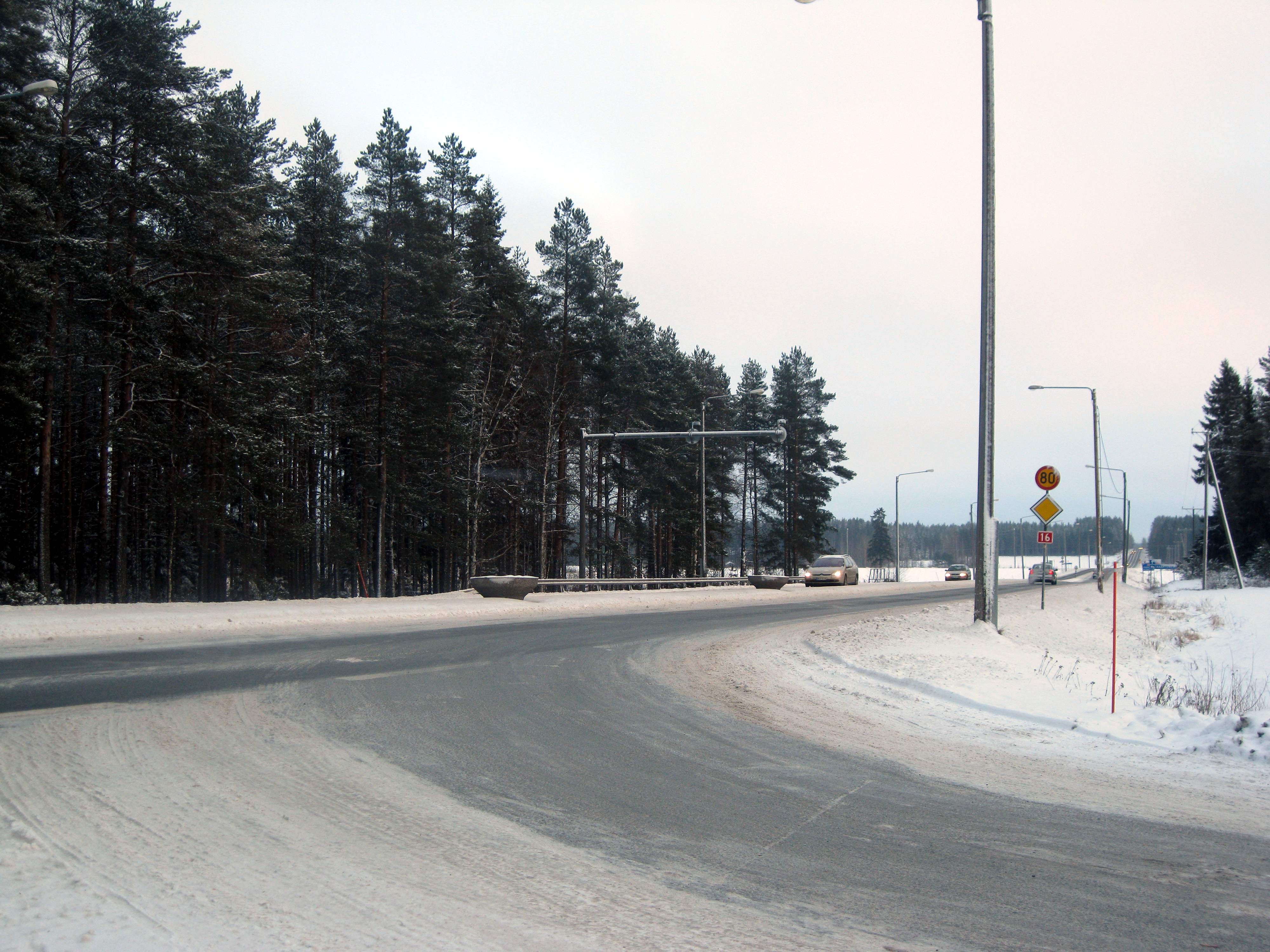 National road 16 in Alajärvi.